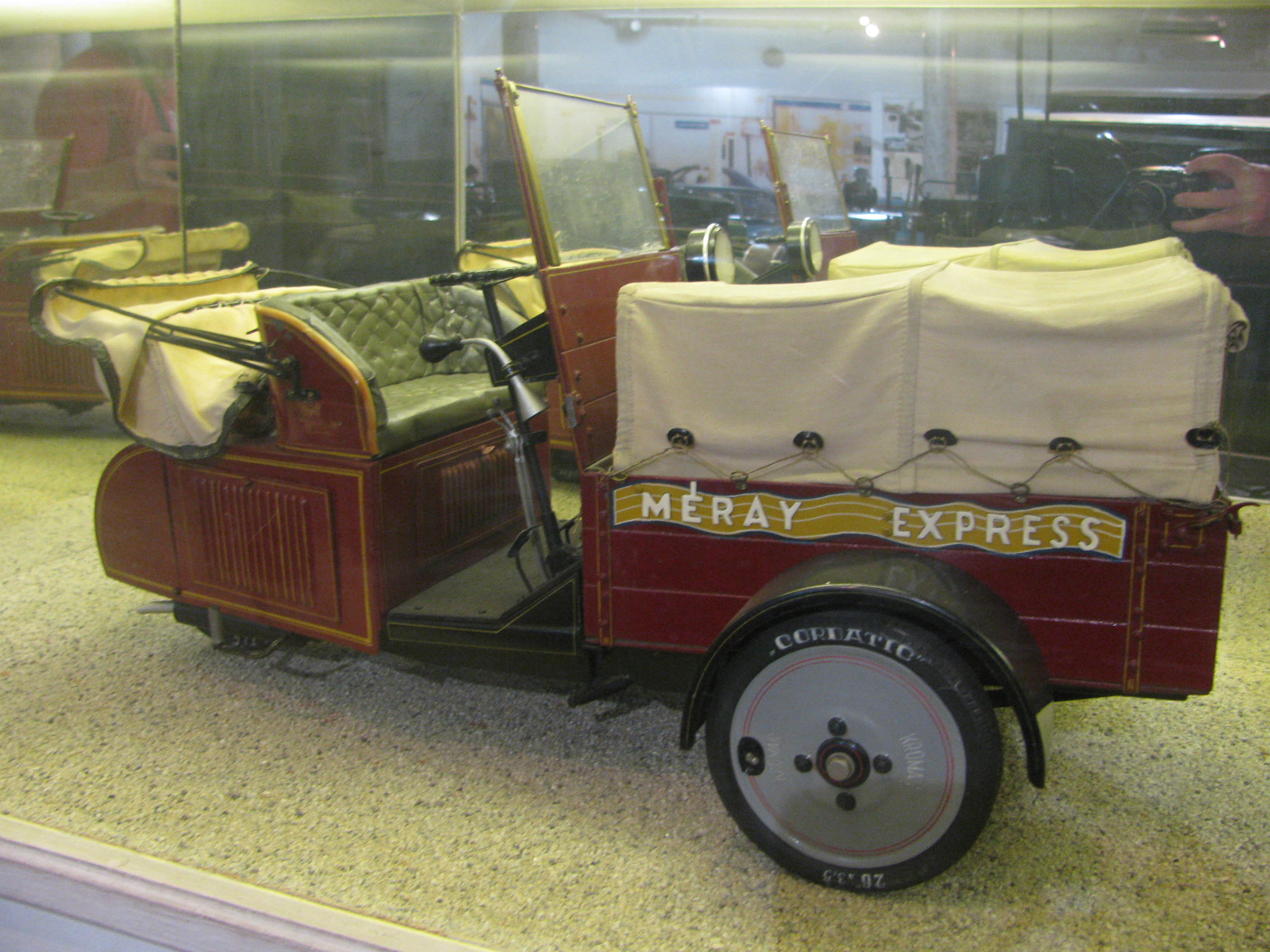 A model illustrating of Méray three-wheeled delivery van. The production of these vehicles began in late 1920's but ceased due to the great depression. The vehicles were powered by JAP engines.